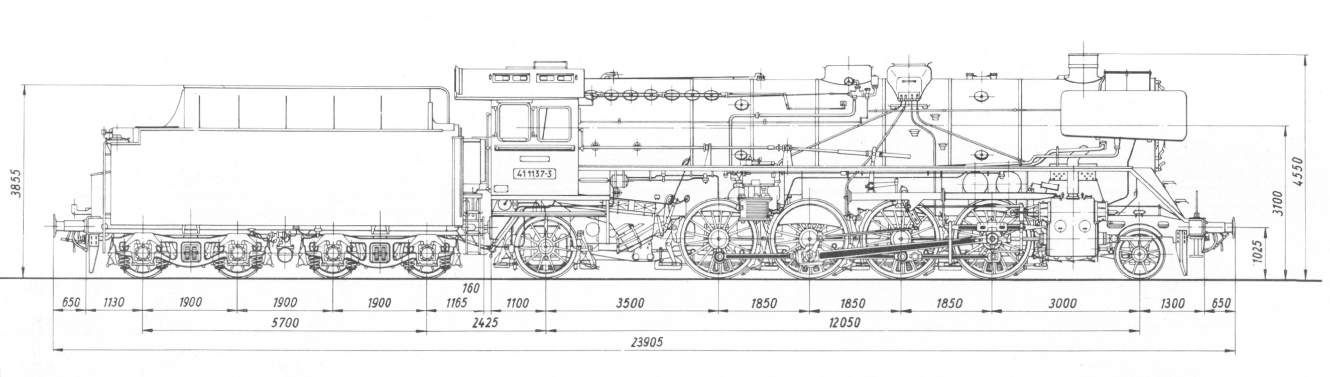 Sectional drawing of the steam locomotive number 41 1137-3 of the Deutsche Reichsbahn